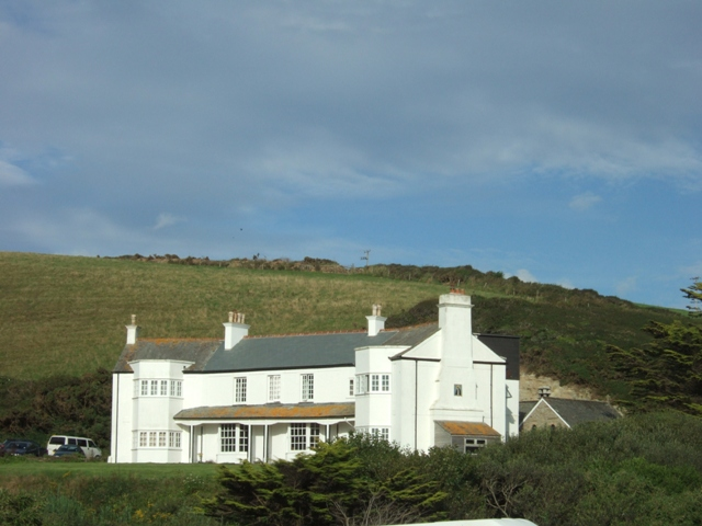 The White House, Tregurrian This imposing house is a familiar sight to all those who use the car park at Watergate Bay.